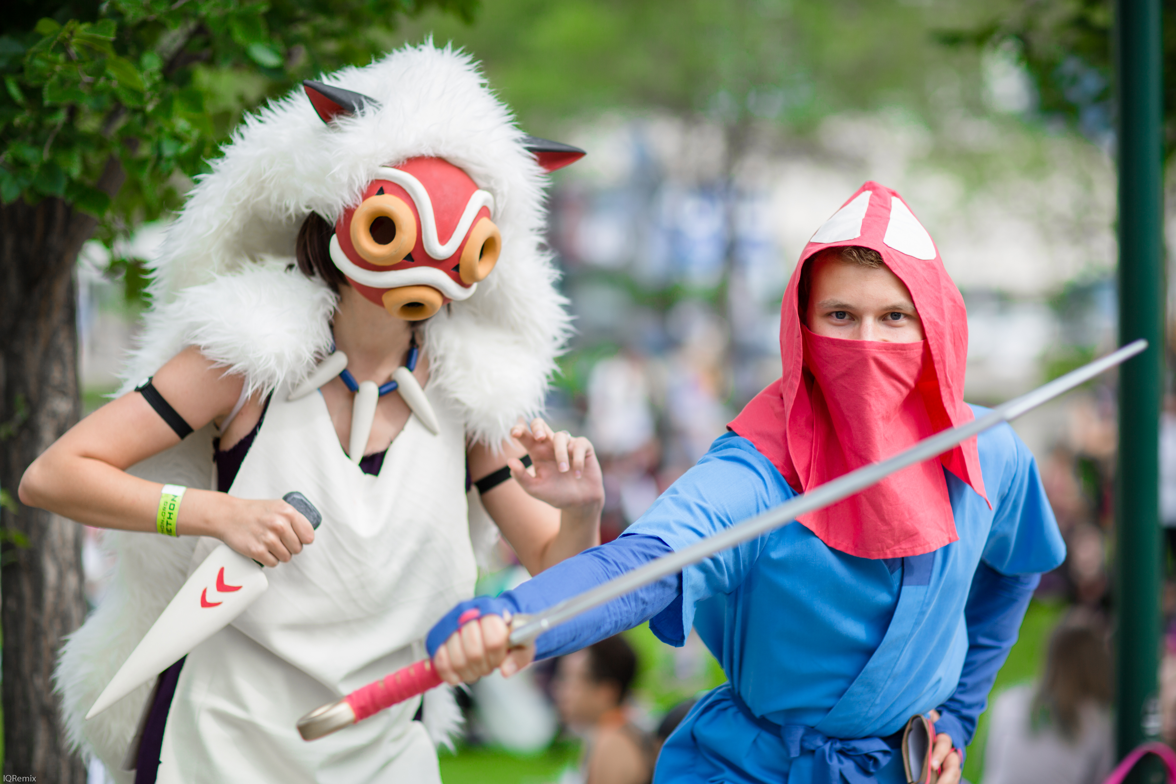 Animethon 23 - 2016